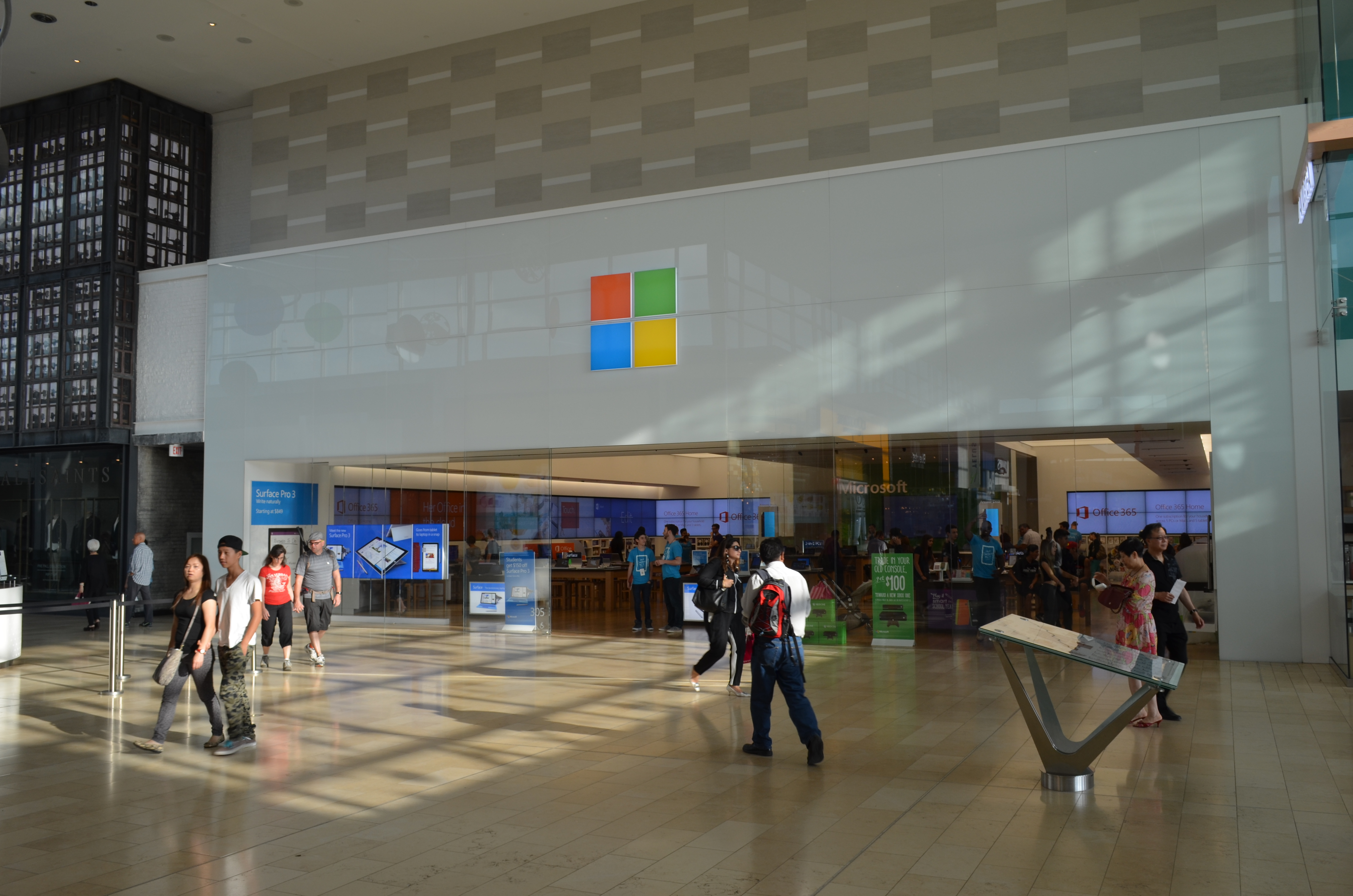 Toronto Microsoft Store